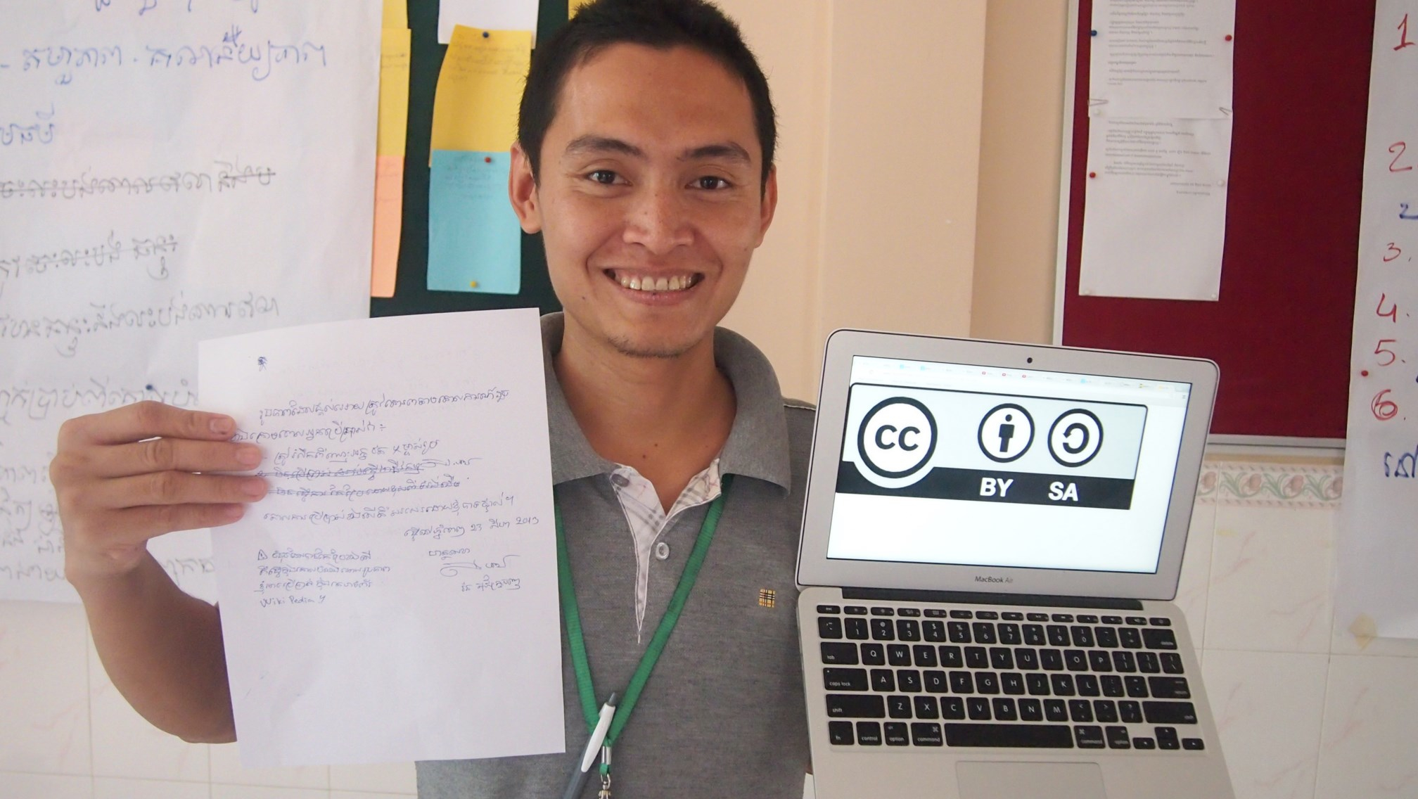 Pagna holding a page of Khmer script describing releasing rights for use in Wikipedia commons, and screen showing CC license logo, from workshop at Building Community Voices in Phnom Penh, Cambodia.